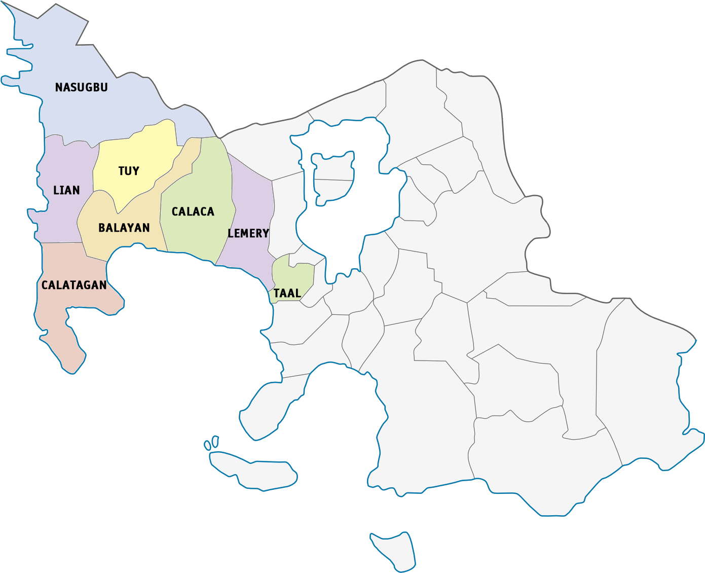 Map of the 1st legislative district of Batangas, PhilippinesTagalog: Mapa ng Unang distrito ng Batangas, Pilipinas